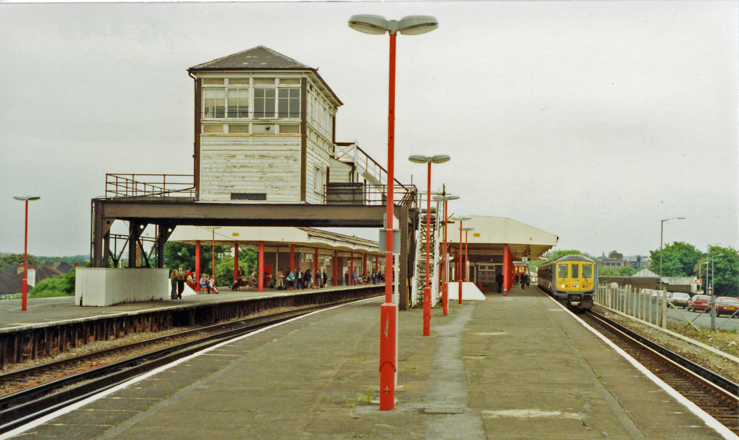 Epsom station, 1991. View NE from the west end of the Down platform, towards Raynes Park and Waterloo - to left, and Sutton and Victoria/London Bridge - to right: ex-LSWR & LB&SCR Joint station, on ex-LSWR lines from Waterloo and Victoria/London Bridge jointly to Leatherhead, then Guildford (LSWR); Dorking, Horsham and South Coast (LB&SCR). The Joint station dates from its rebuilding on closure of the ex-LB&SCR station on 3/3/29.